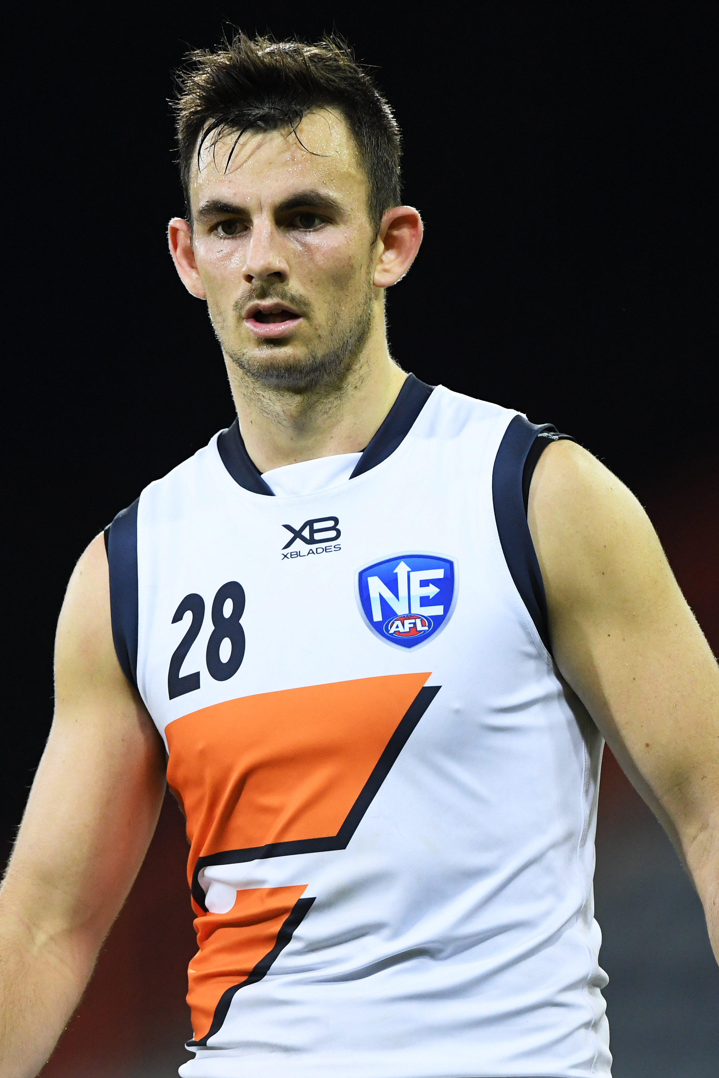 Zach Sproule of Greater Western Sydney during the 2019 NEAFL round 15 match between NT Thunder and Greater Western Sydney at TIO Stadium on Saturday, 13 July 2019 in Darwin, Australia.